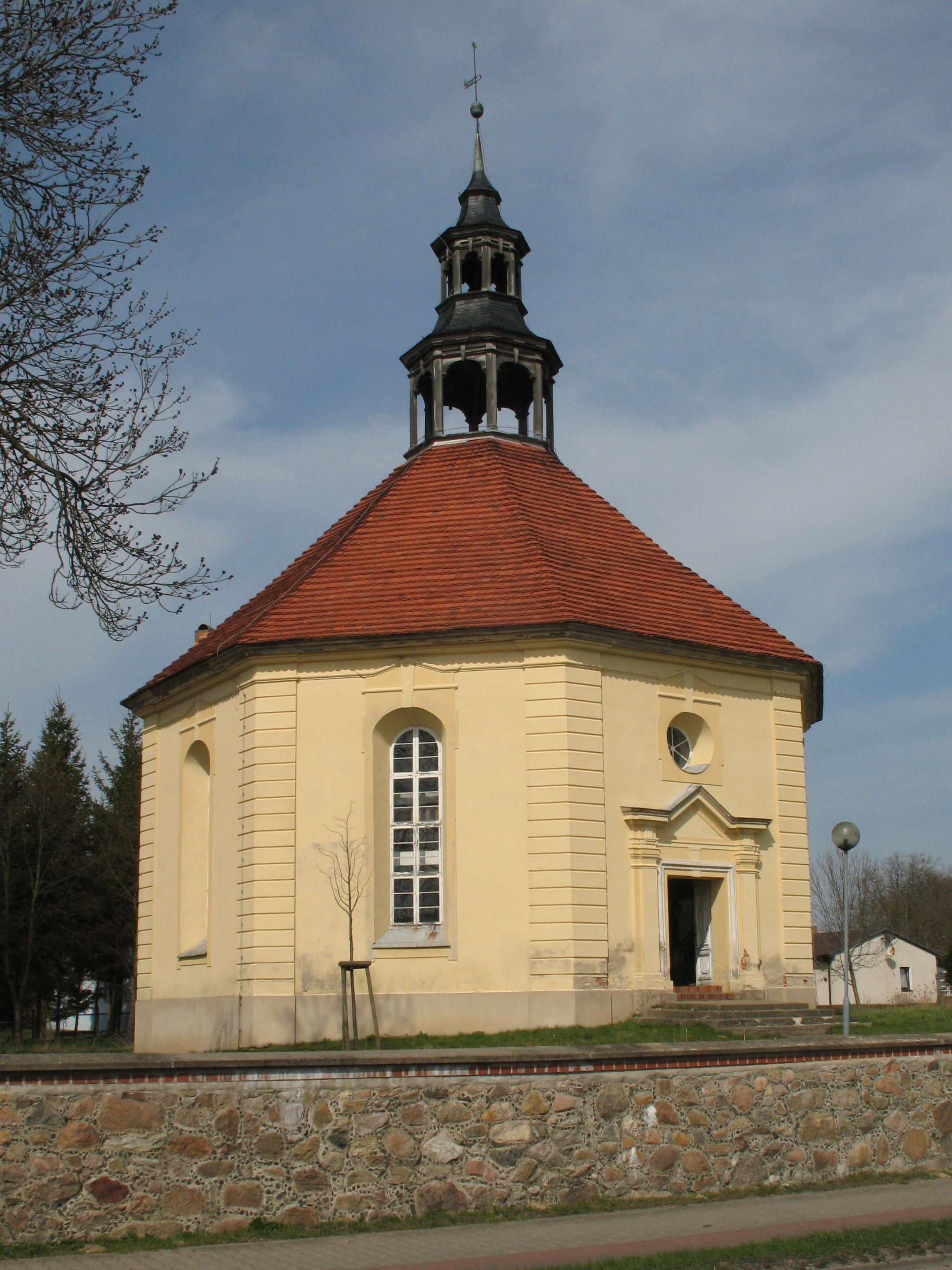 Church in Blumenholz-Weisdin in Mecklenburg-Western Pomerania, Germany